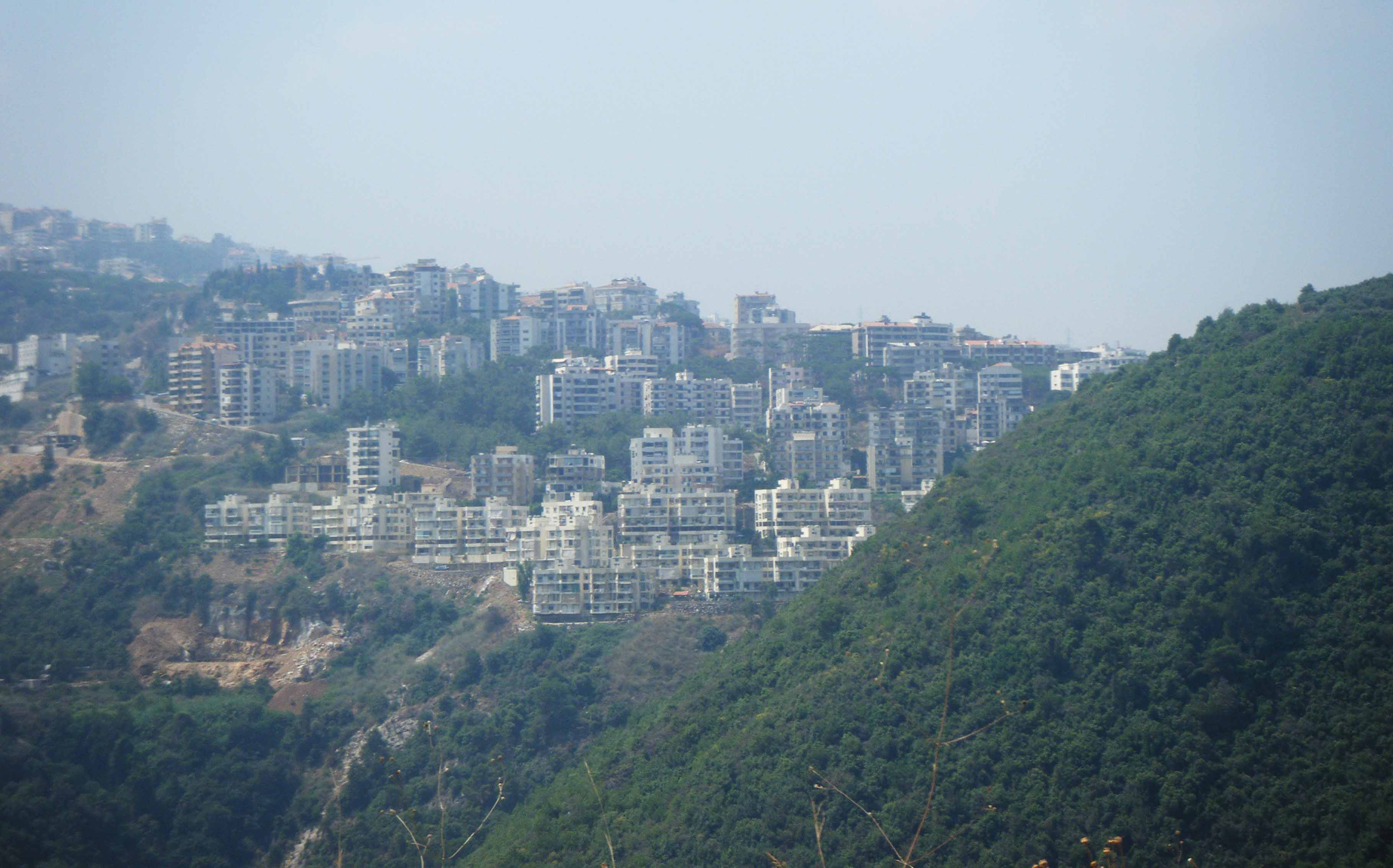 Loss of Agricultural Capacity Due to Urban Sprawl in Jounieh, Lebnaon